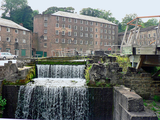 Weir at Arkwright's Mill, Cromford